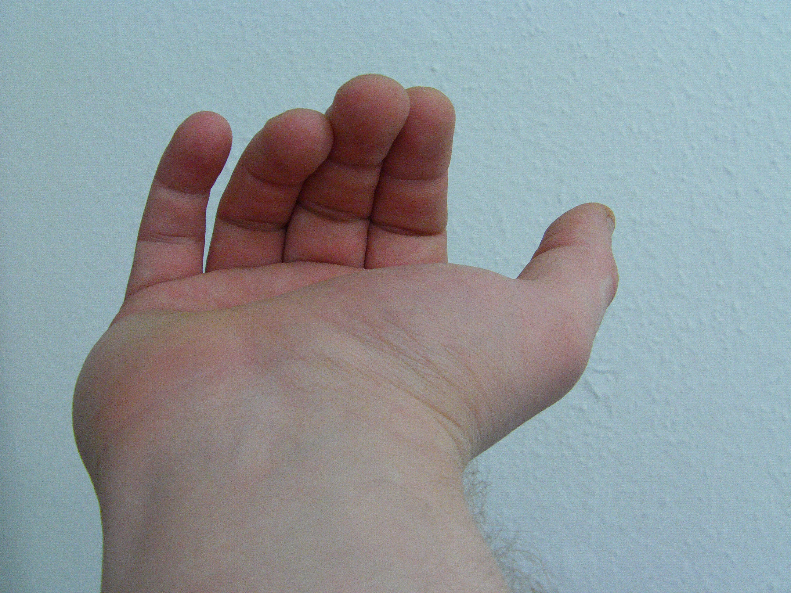 This is a photo of a hand beckoning